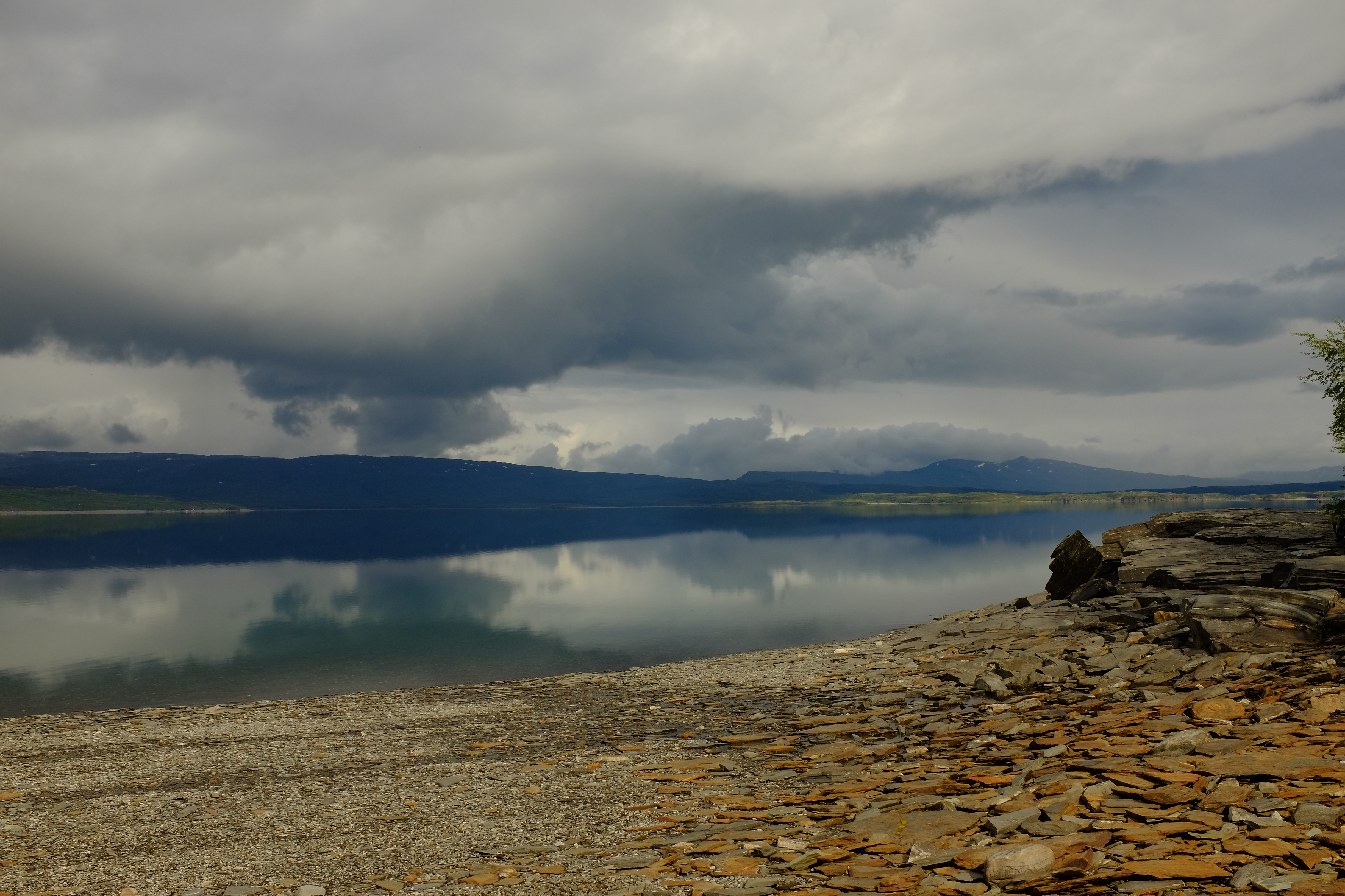 Balvaten lake seen from Skajddebukta bay in the Junkerdal National Park, south of Sulitjelma mountains of Saltdal municipality in Nordland county.